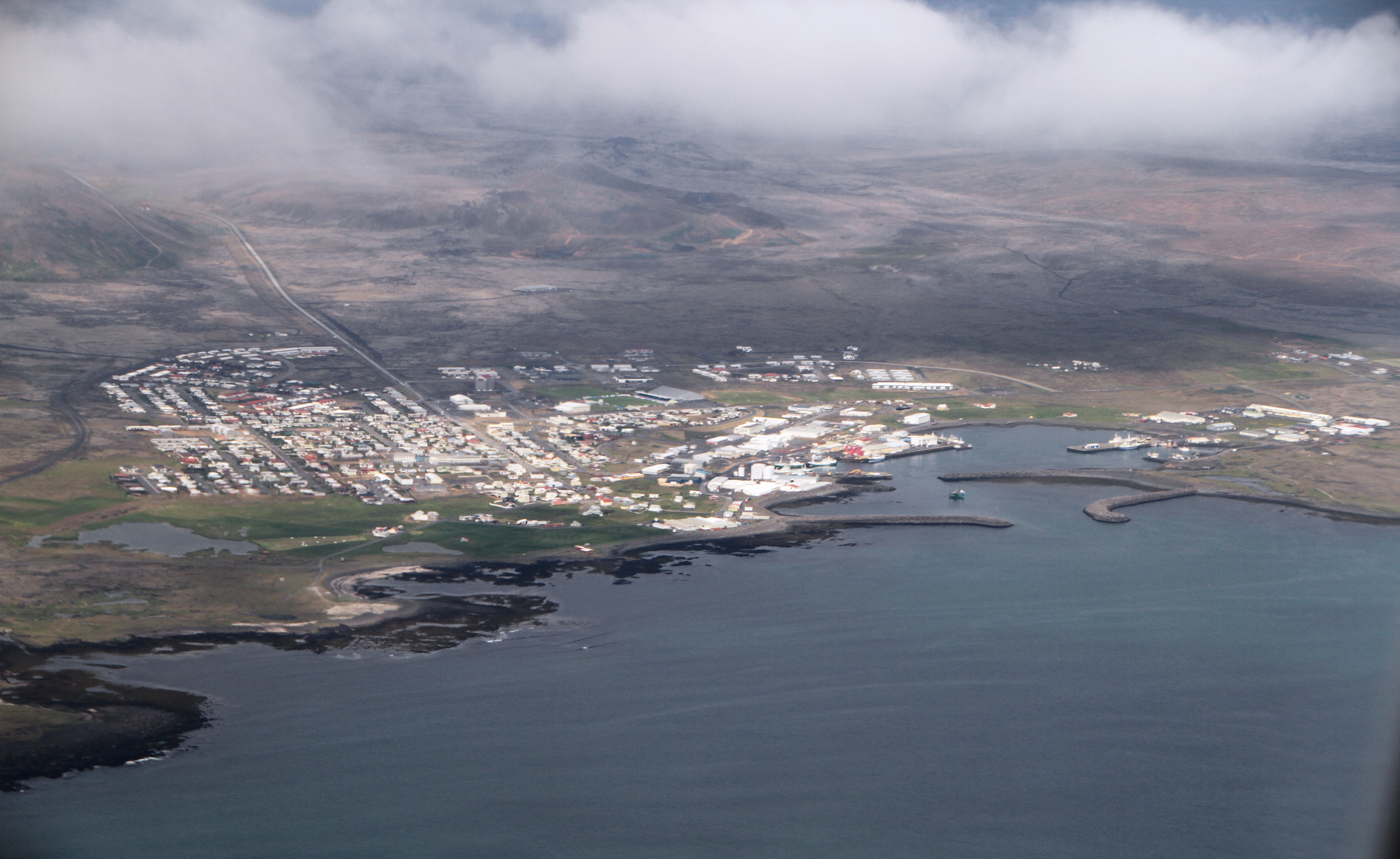 Aerial view of southwestern Iceland.